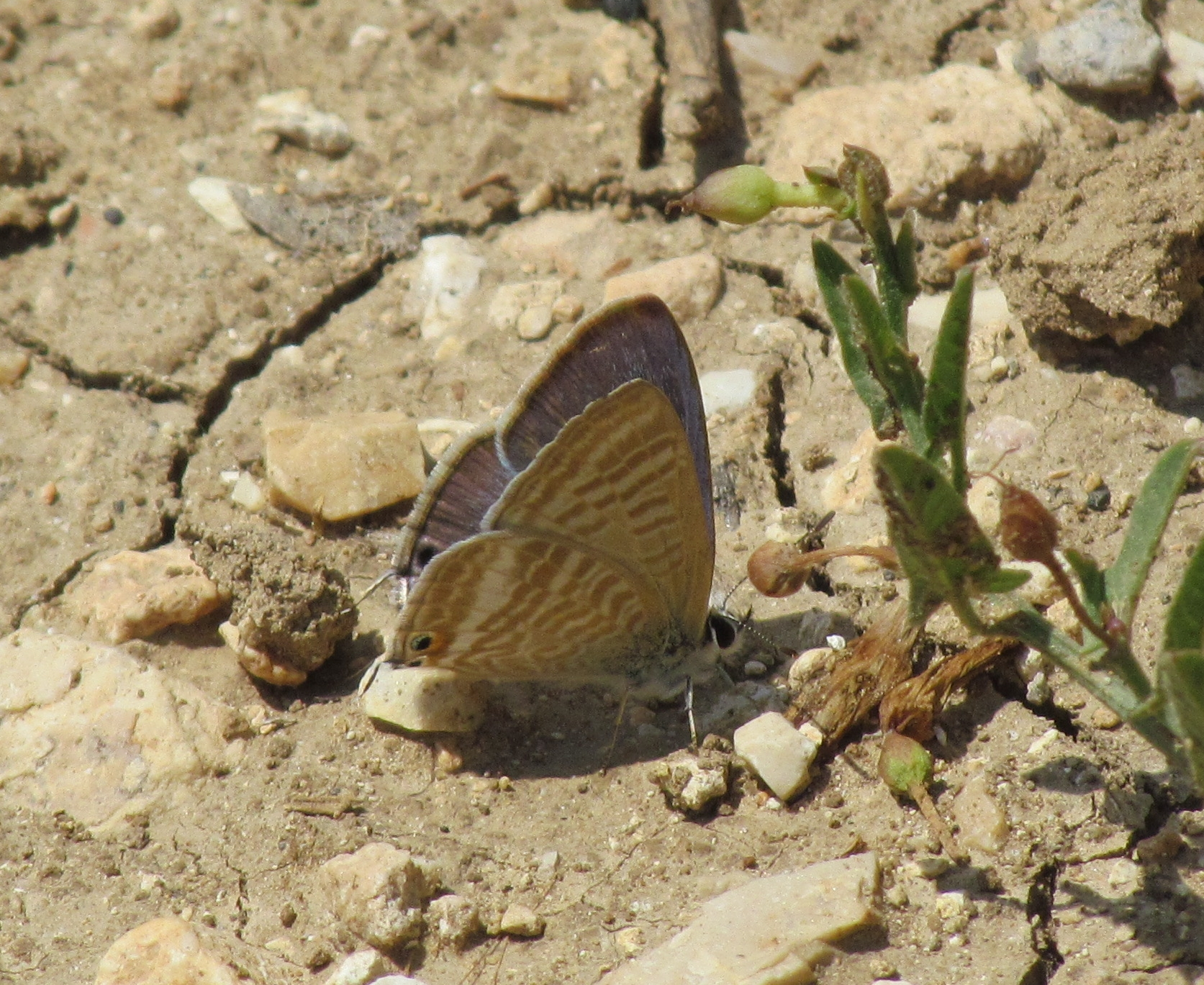 כחליל האפון בגיא בן הינום ב-10 במאי 2014